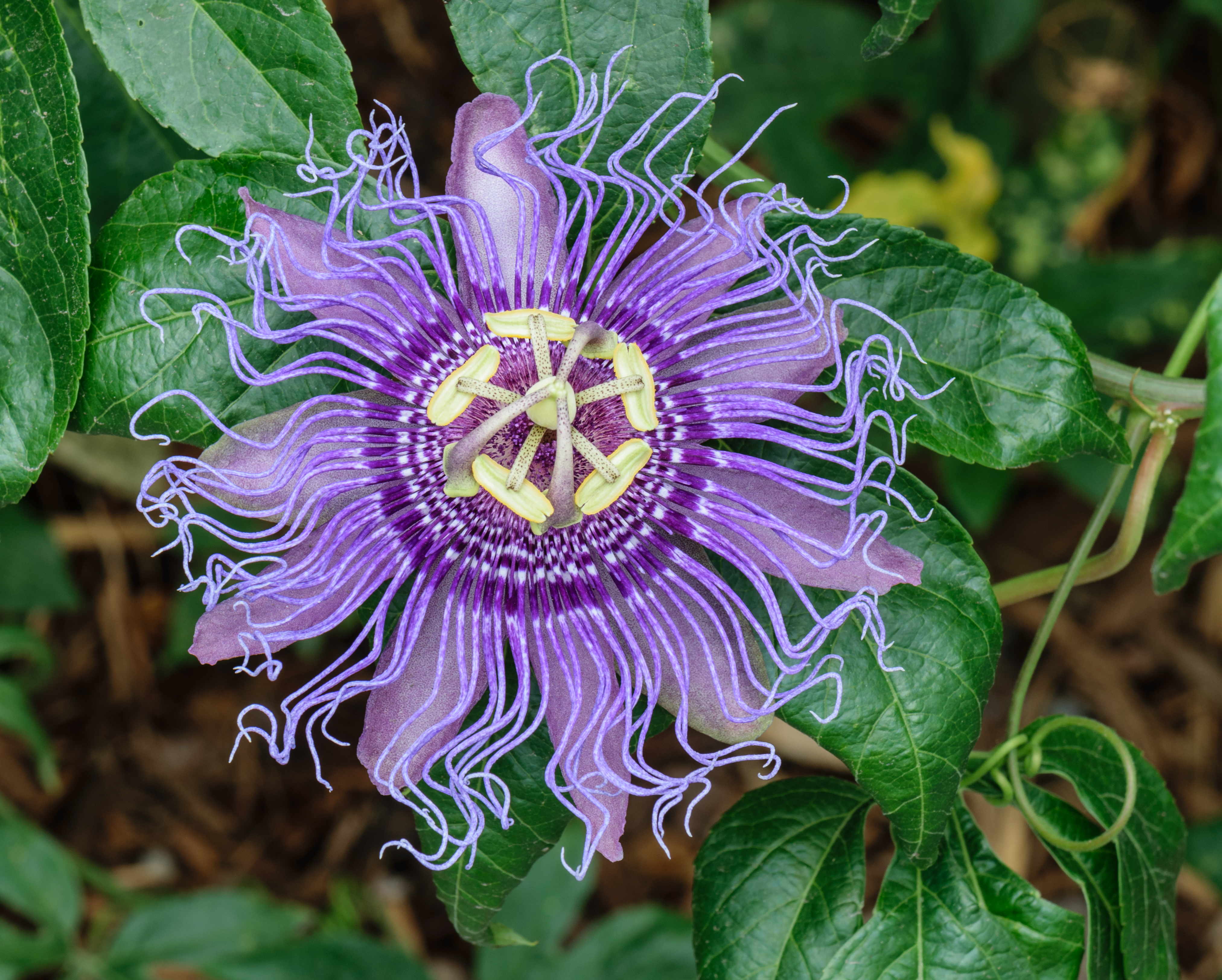 Passiflora incarnata, Passion Vine, purple petals and purple corona filaments variety, at the Butterfly Garden at Norfolk Botanical Garden, Norfolk, Virginia.